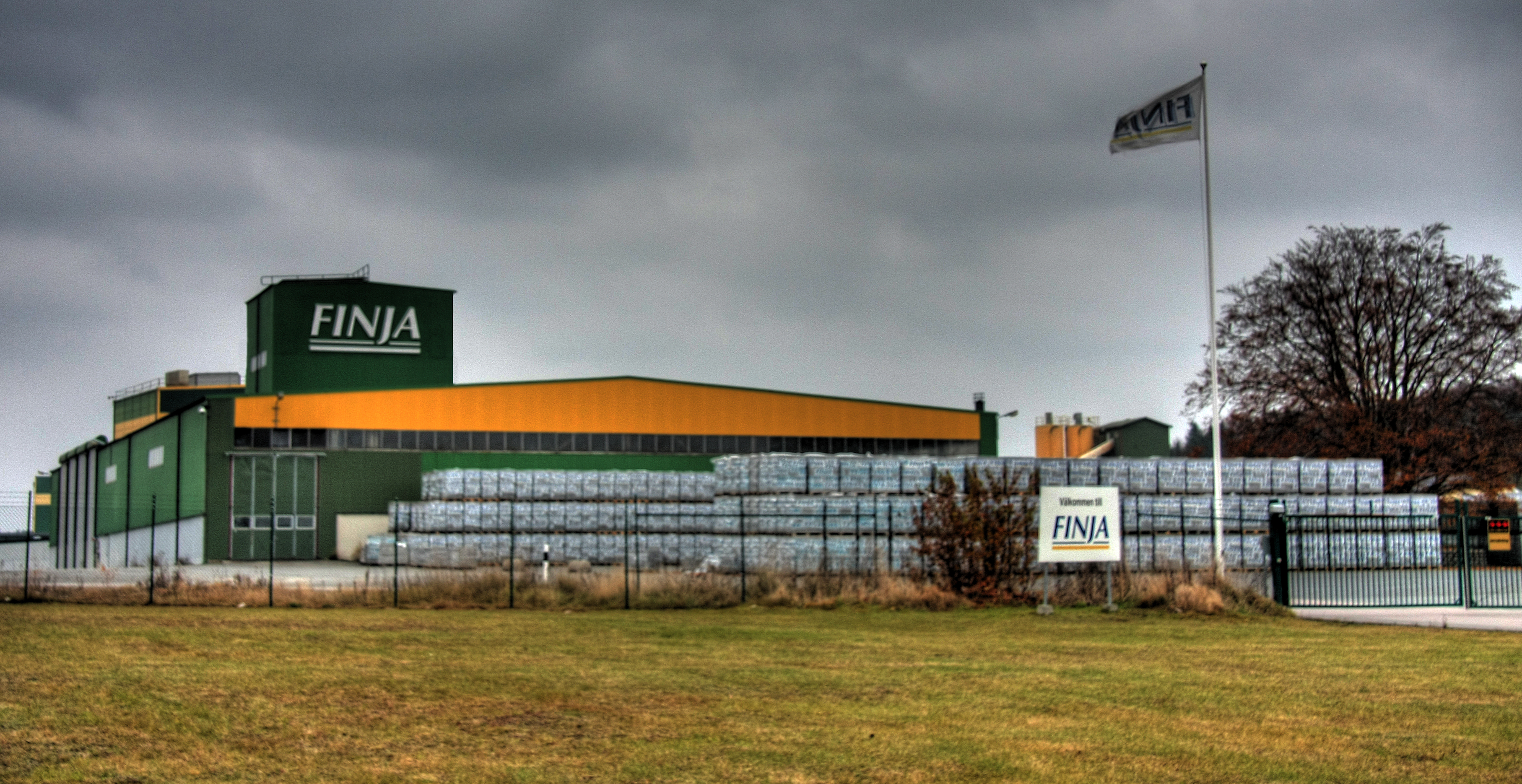 Swedish concrete company Finja Betong